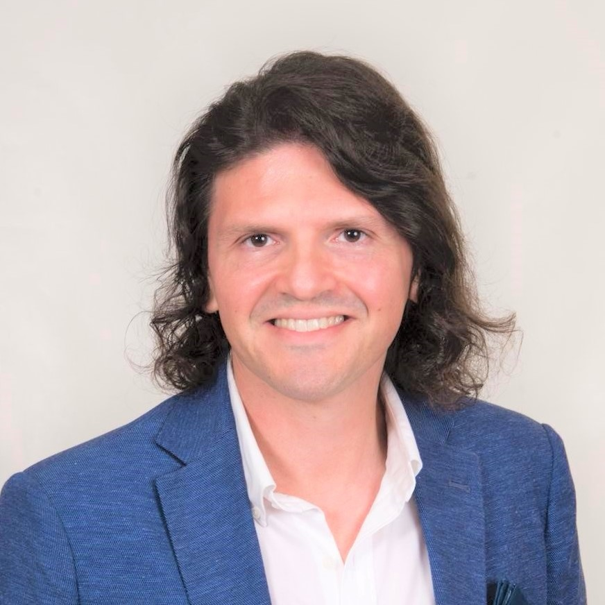 Angelo Dalli headshot